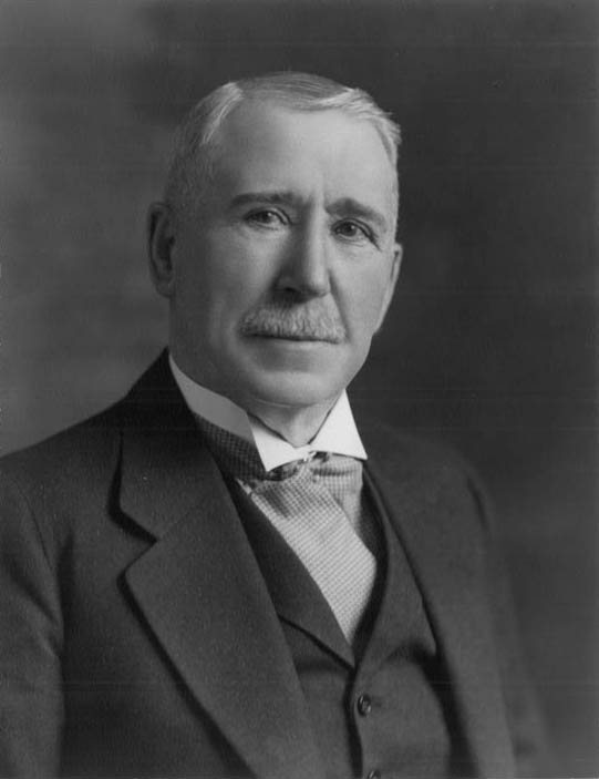 Sir William Hearst, Premier of Ontario Date: ca. 1930 Source: Archives of Ontario